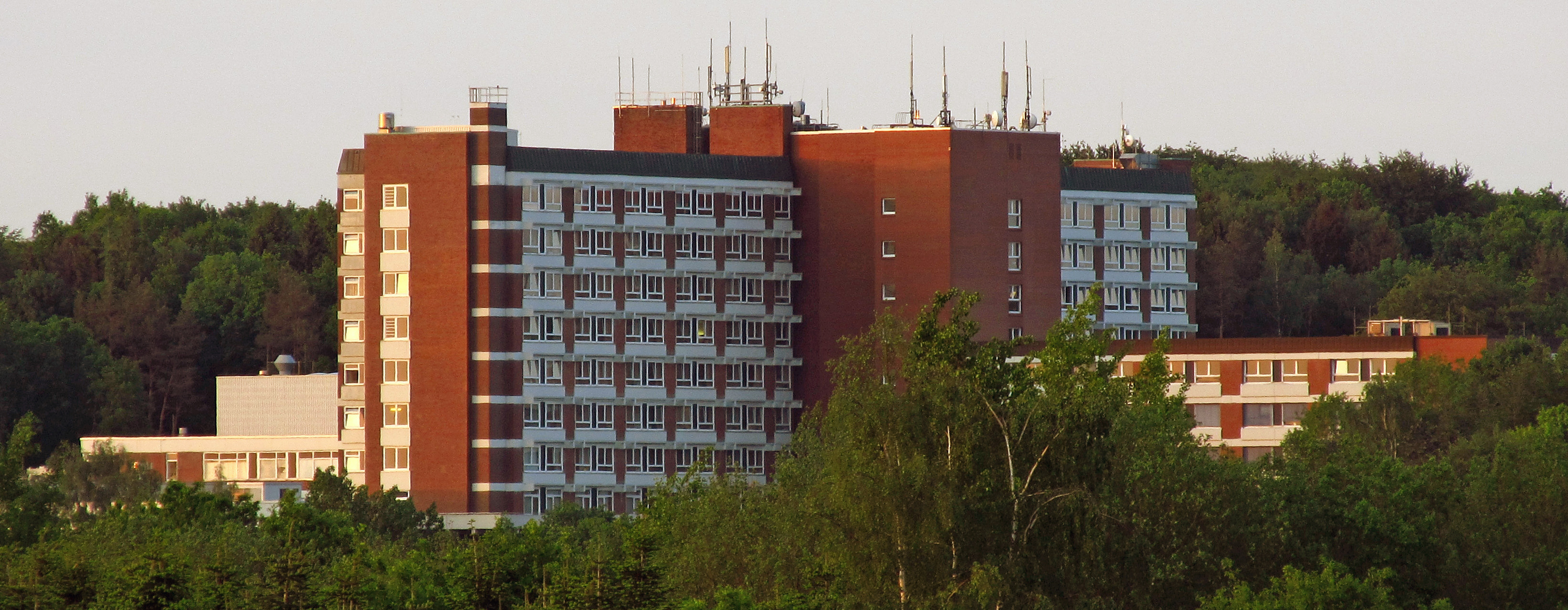 A picture of the Elbe Klinikum Stade